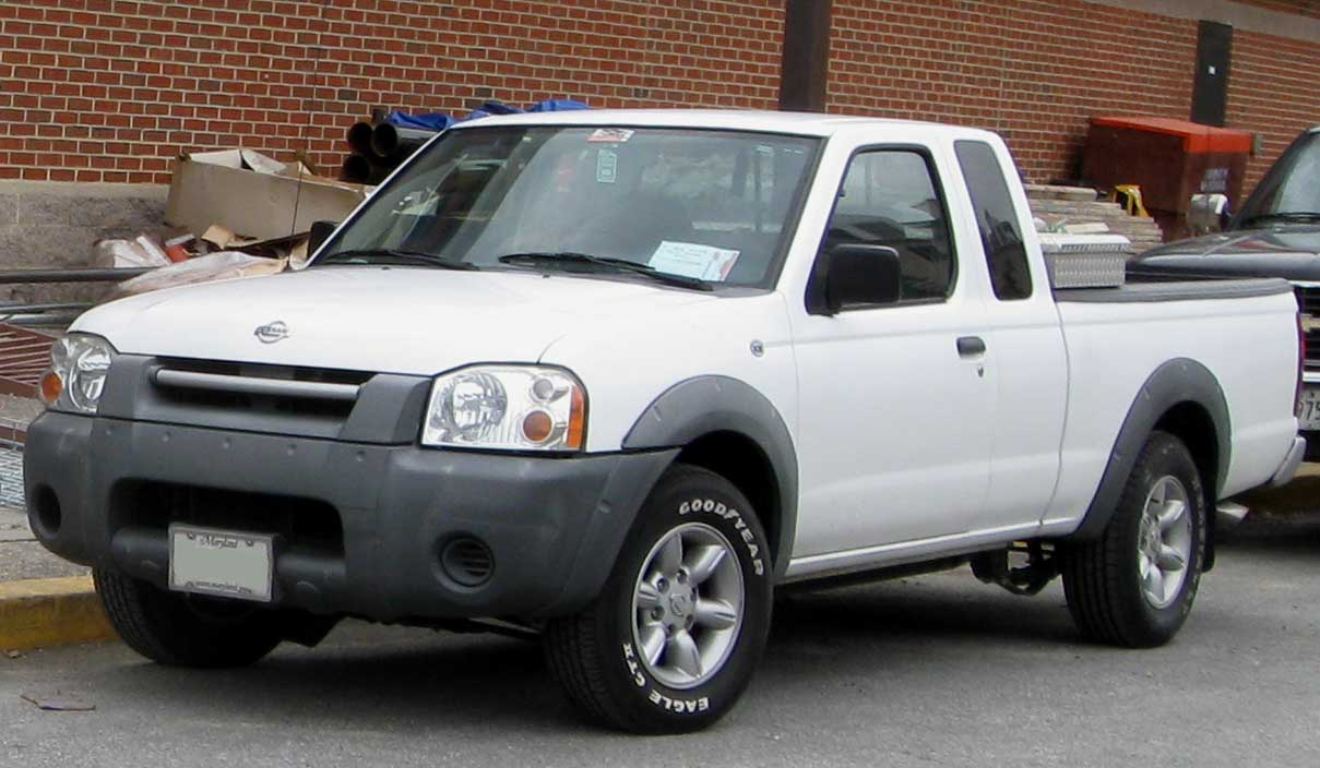 2001-2004 Nissan Frontier photographed in College Park, Maryland, USA.